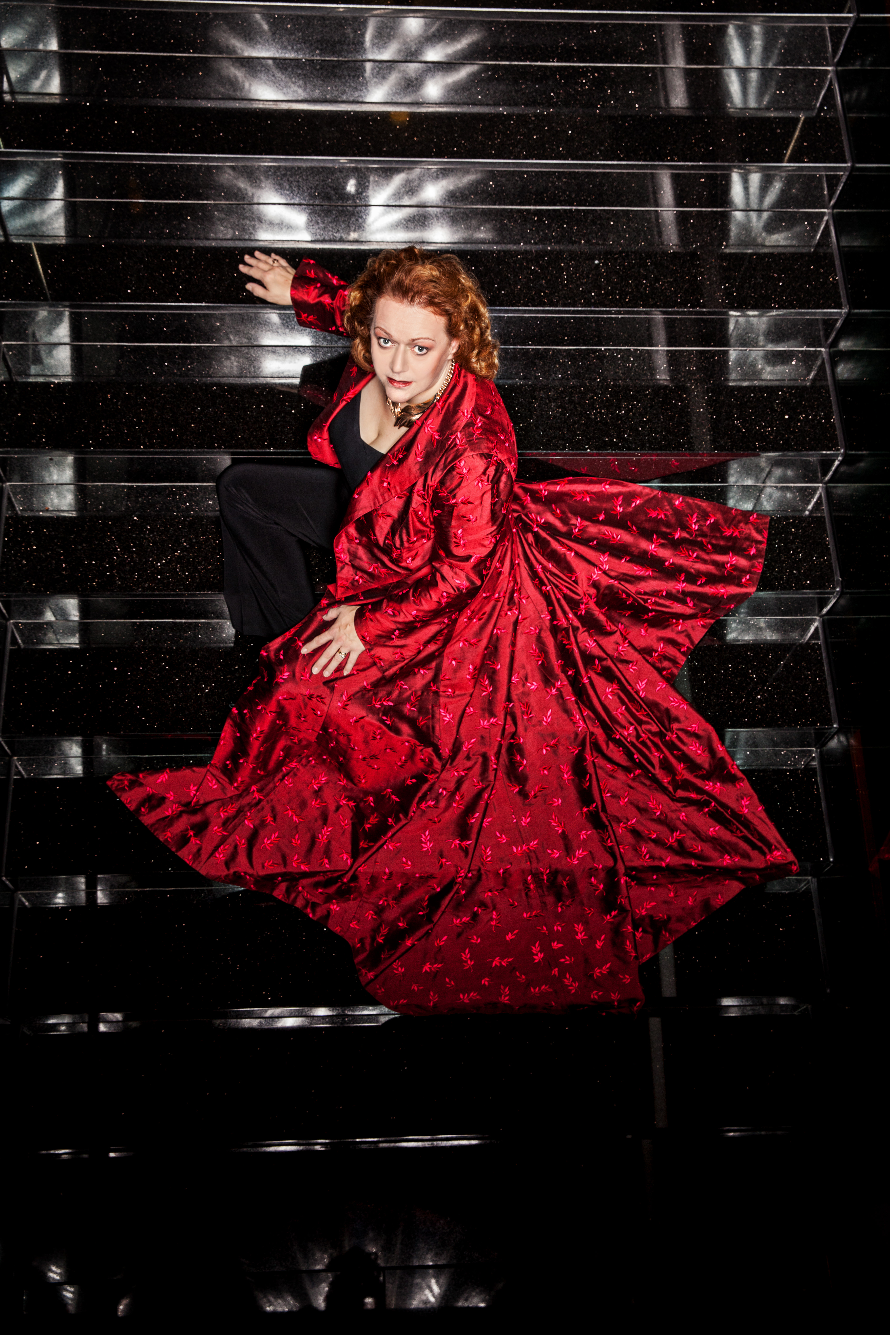 Opera singer Catherine Foster 2017